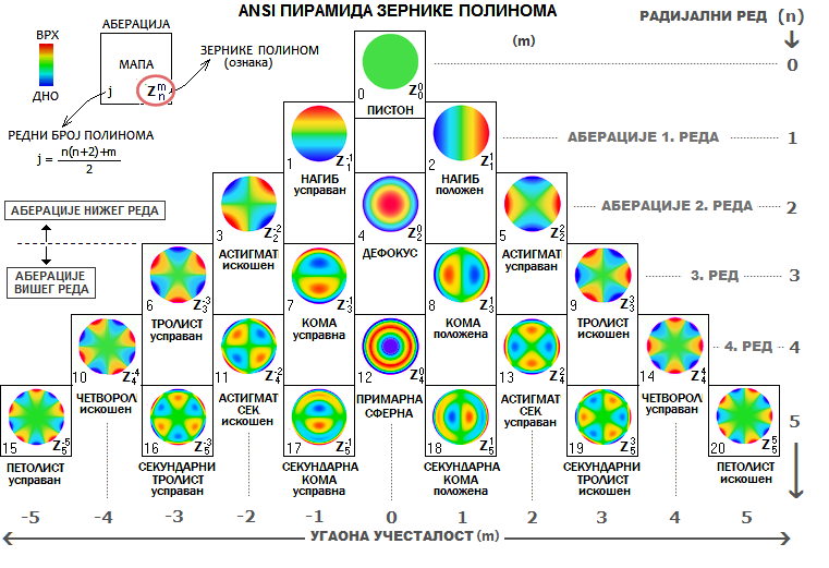 ANSI ЗЕРНИКЕ ПИРАМИДА